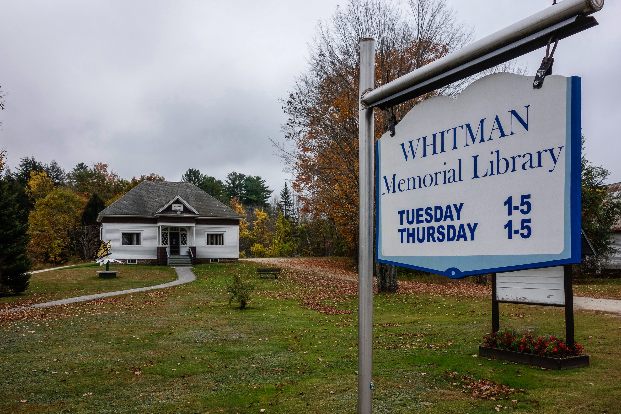 Whitman Memorial Library, National Register of Historic Places, Bryant Pond, Oxford, Maine.